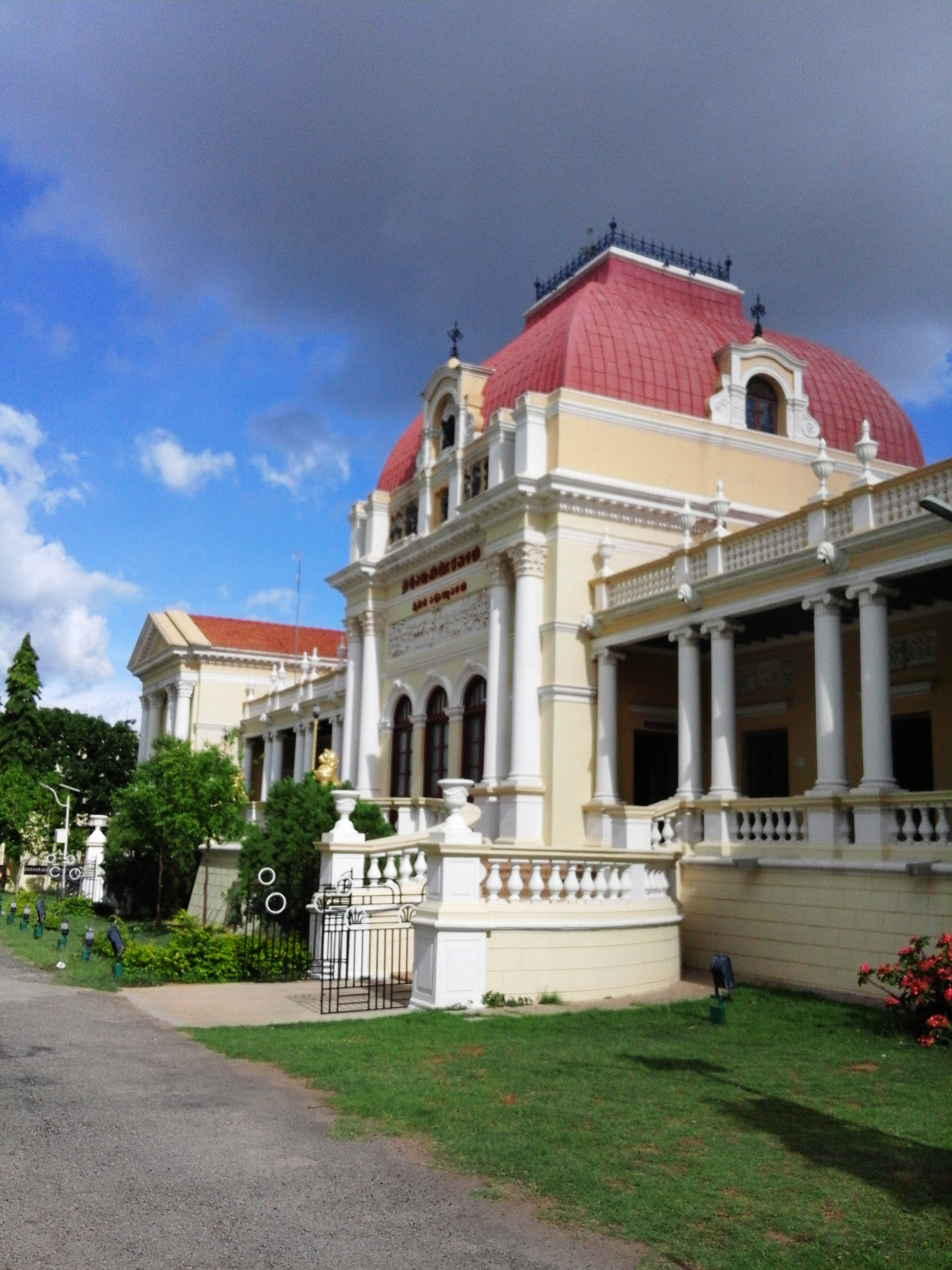 Mysore city, Karnataka state, India